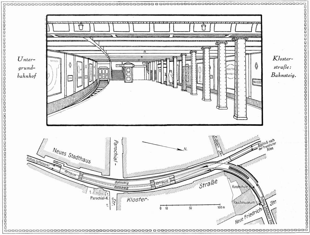 Draft of the Berlin U-Bahn station Klosterstraße (line U2) with map of a possible second line